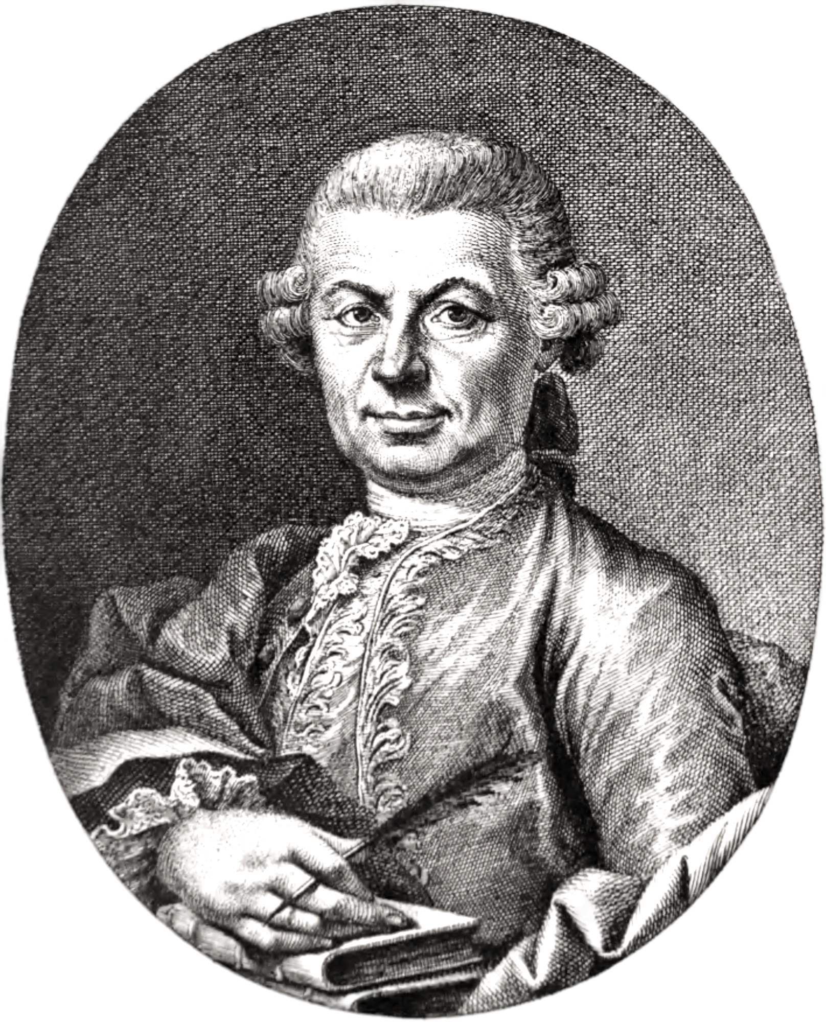 Portrait of Carlo Gozzi (1720-1806)